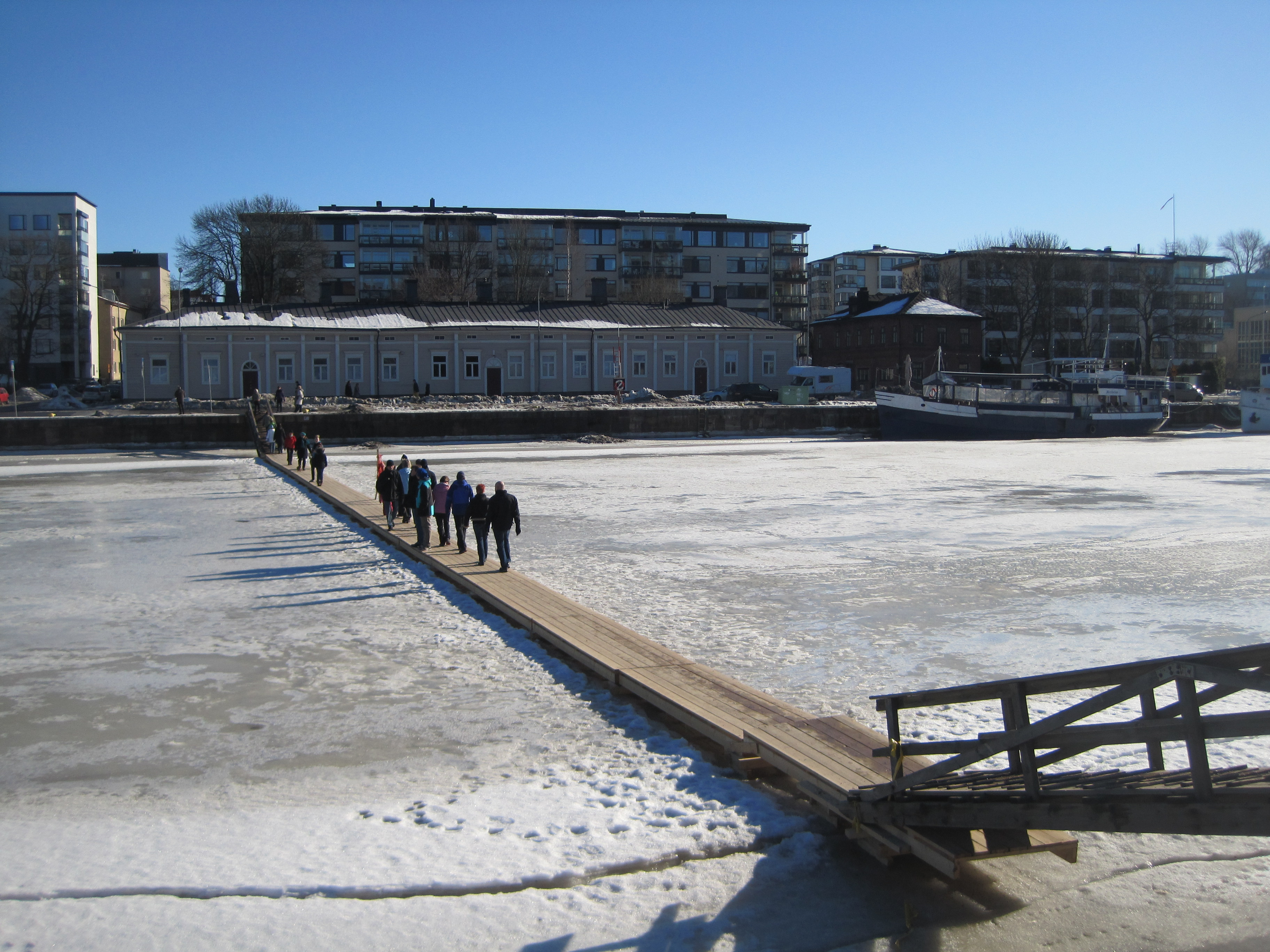 Wooden overpass over frozen Aura river, Turku, Finland check usage